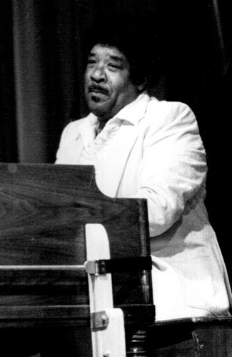 Jazz organ player Bill Doggett in France